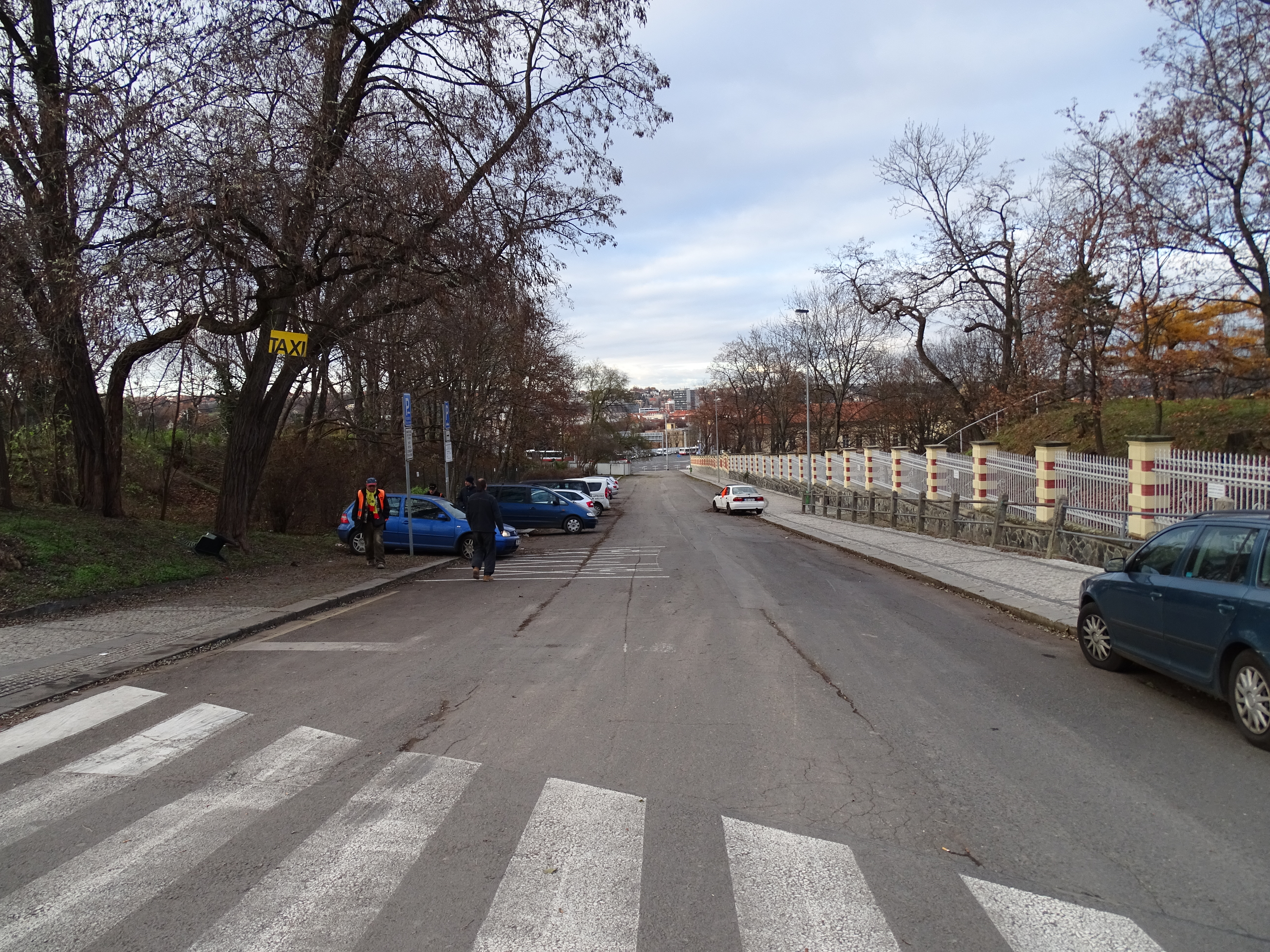 Prague-Hradčany, Czechia. U Prašného mostu street.